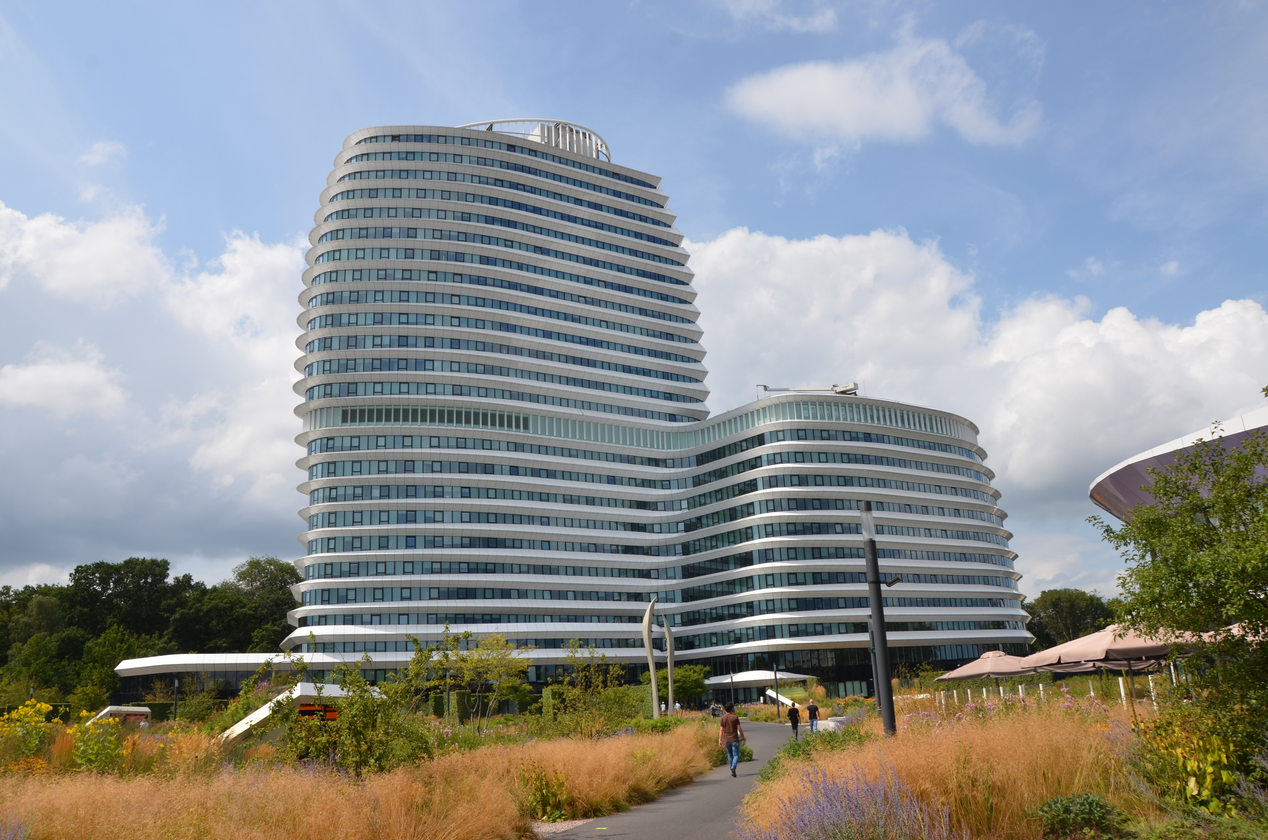 A view of the office building Kempensberg in the Dutch city of Groningen, designed by UNStudio. It serves as a main office for several Dutch government agencies.